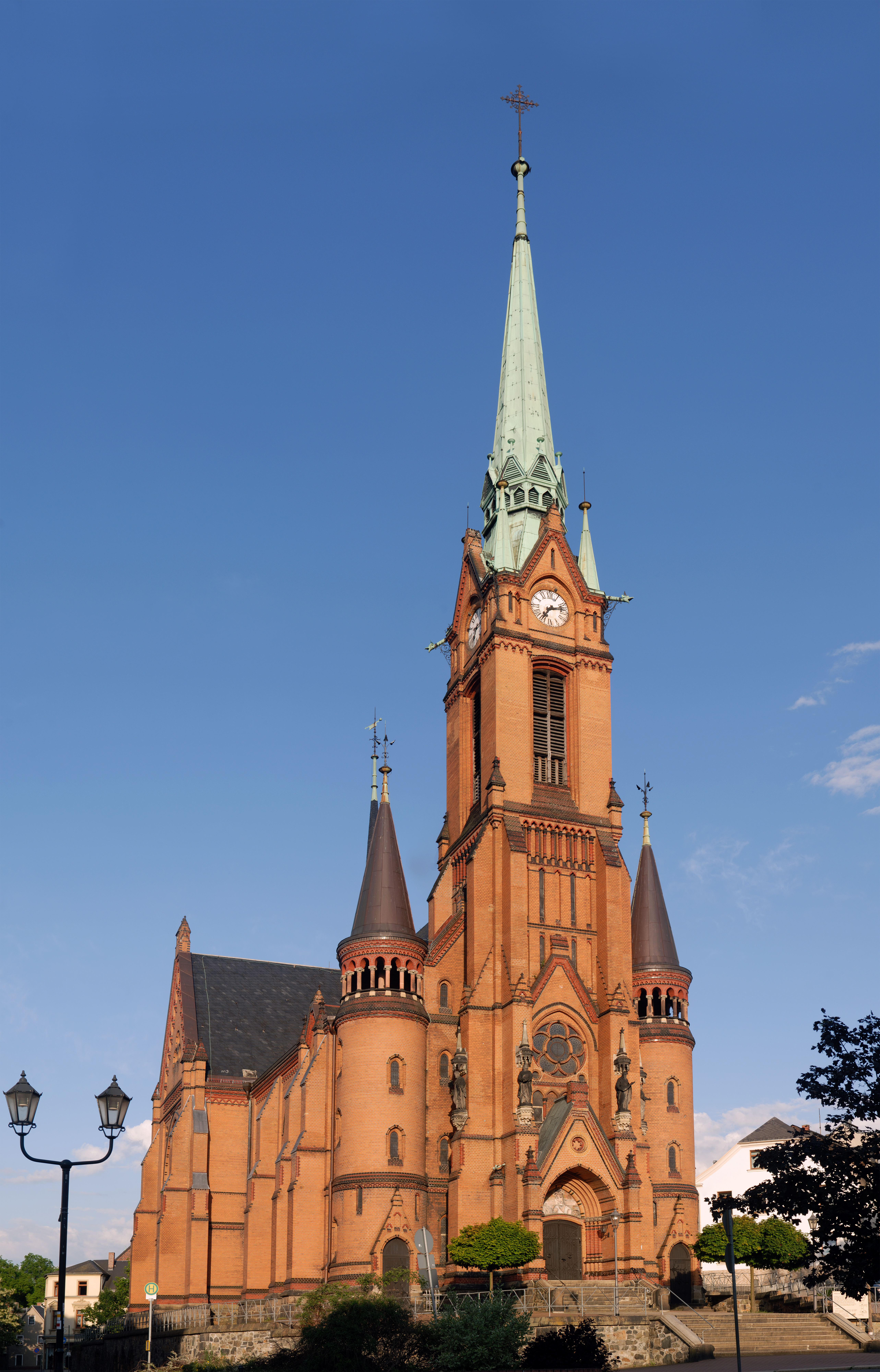 This image shows a side view of the church in Mylau (Saxony, Germany). It is a ten segment panoramic image.